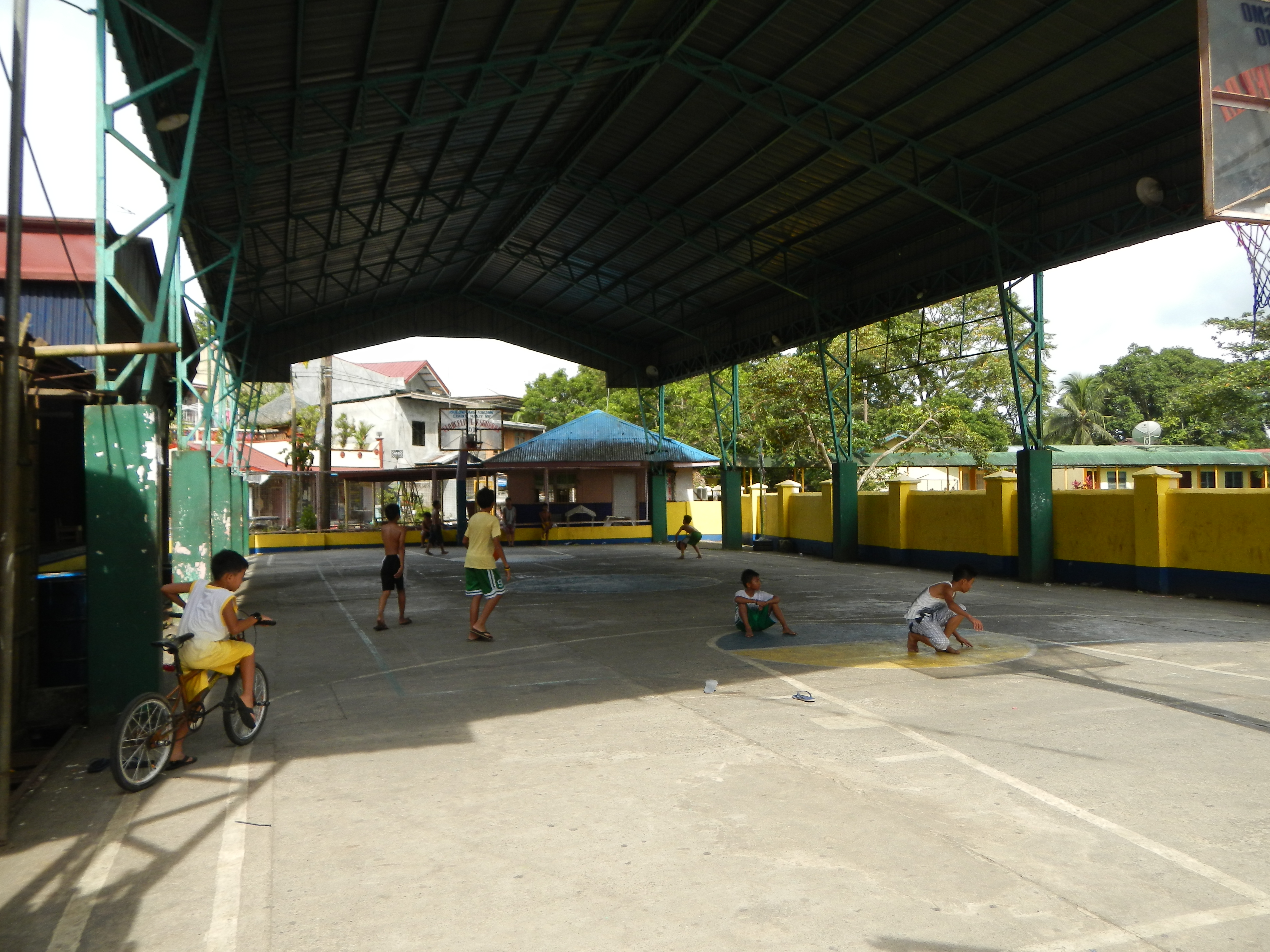 Upload Wizard photos - (General description, 3-dimension angle by angle photography of this town, church & landmarks) -- of the - Barangay Duhat Hall, nipa hut housing its products, the National Road, cor. R. Magsaysay, St., Poblacion, the Welcome Sign, at Junction, crossing and jeep terminal, stop, Covered Court, Tanghalang Gov. Teresita Lazaro, Paaralang Elementarya ng Cavinti Cavinti Things to Do Caliraya Lake and Spillway Bumbungan Eco Park, Japanese gardenm Lumot lake, Yamashita shrine,Website-- Cavinti, Laguna.[1]